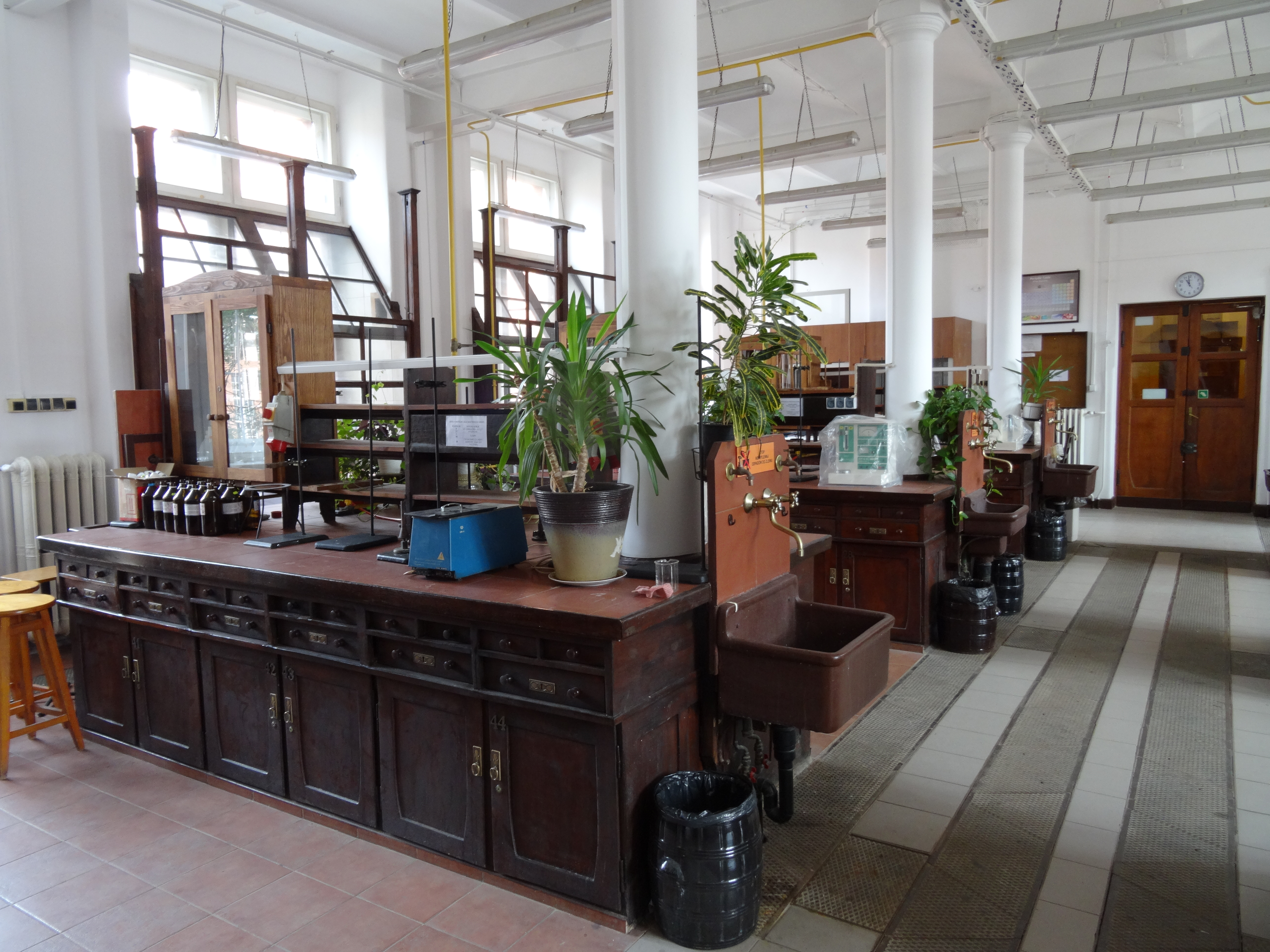 Students' Laboratory, Analytical Chemistry Department, Gdańsk University of Technology